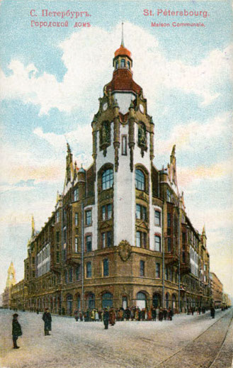 City Institutions Building in St Petersburg in 1910.